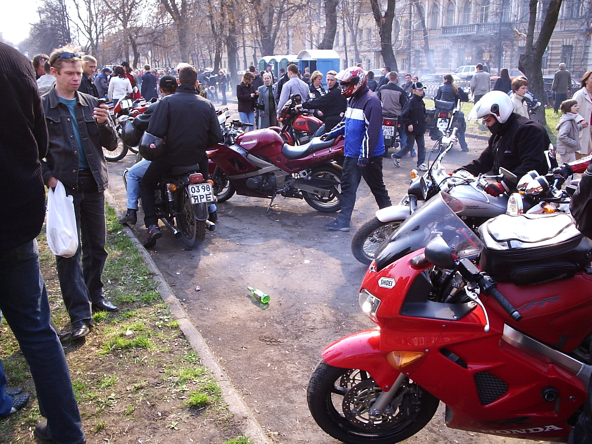 Bikers in Yaroslavl, Russia.